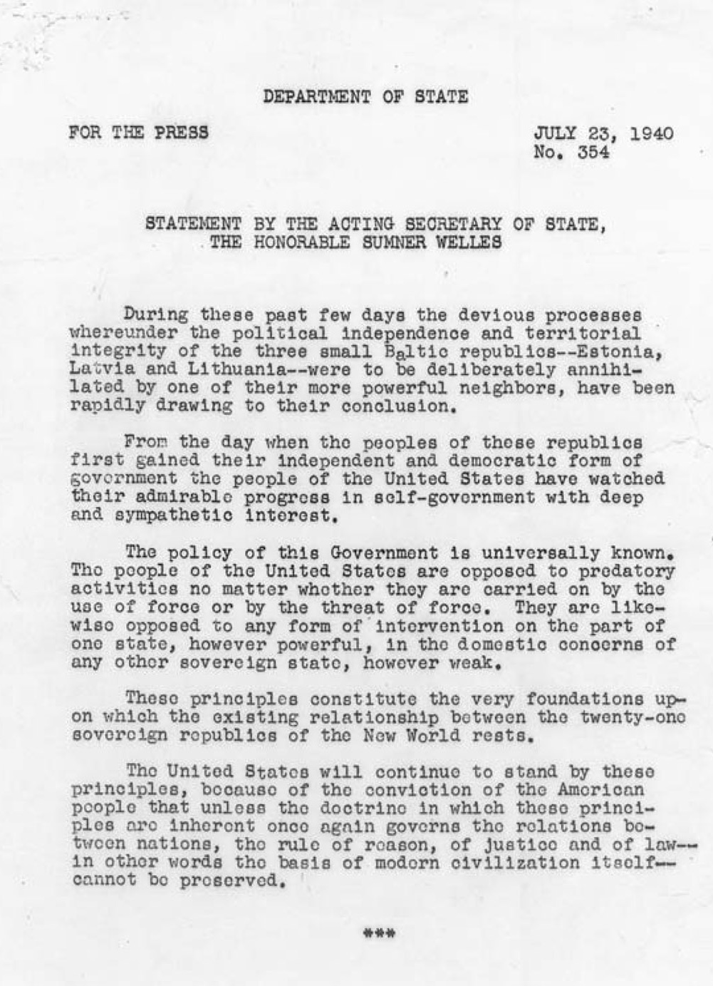 Welles Declaration condemned the USSR’s forcible incorporation of the Baltic states (Estonia, Latvia and Lithuania) in 1940 and proclaimed US refusal to recognize the legitimacy of Soviet control of Estonia, Latvia and Lithuania.